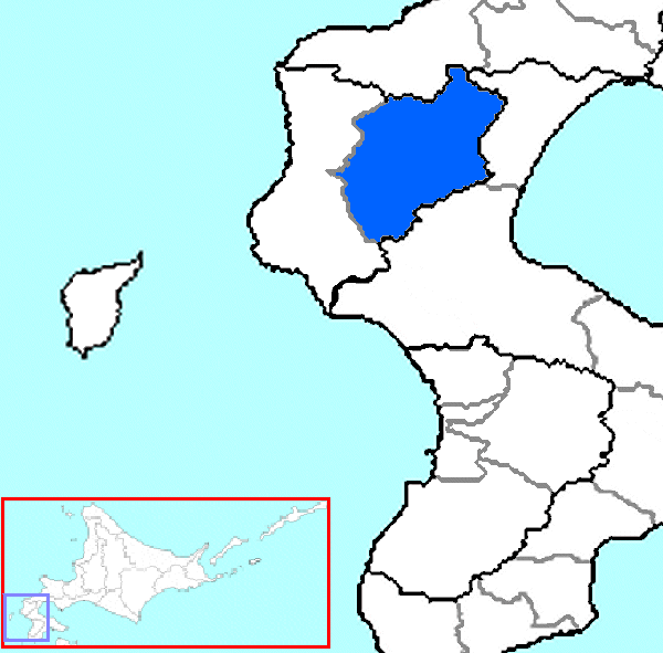 The location of Assabu in Hiyama Subprefecture, Hokkaido Prefecture, Japan.